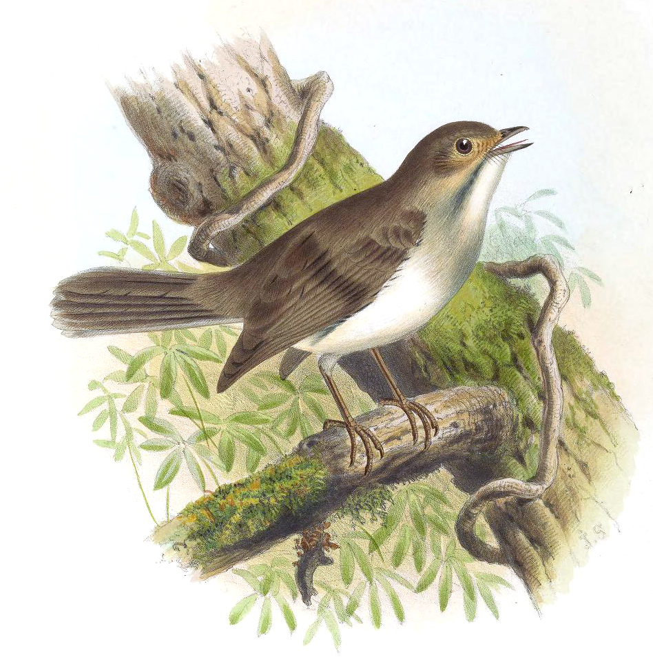 Myiadestes elizabethae=Myadestes elisabeth